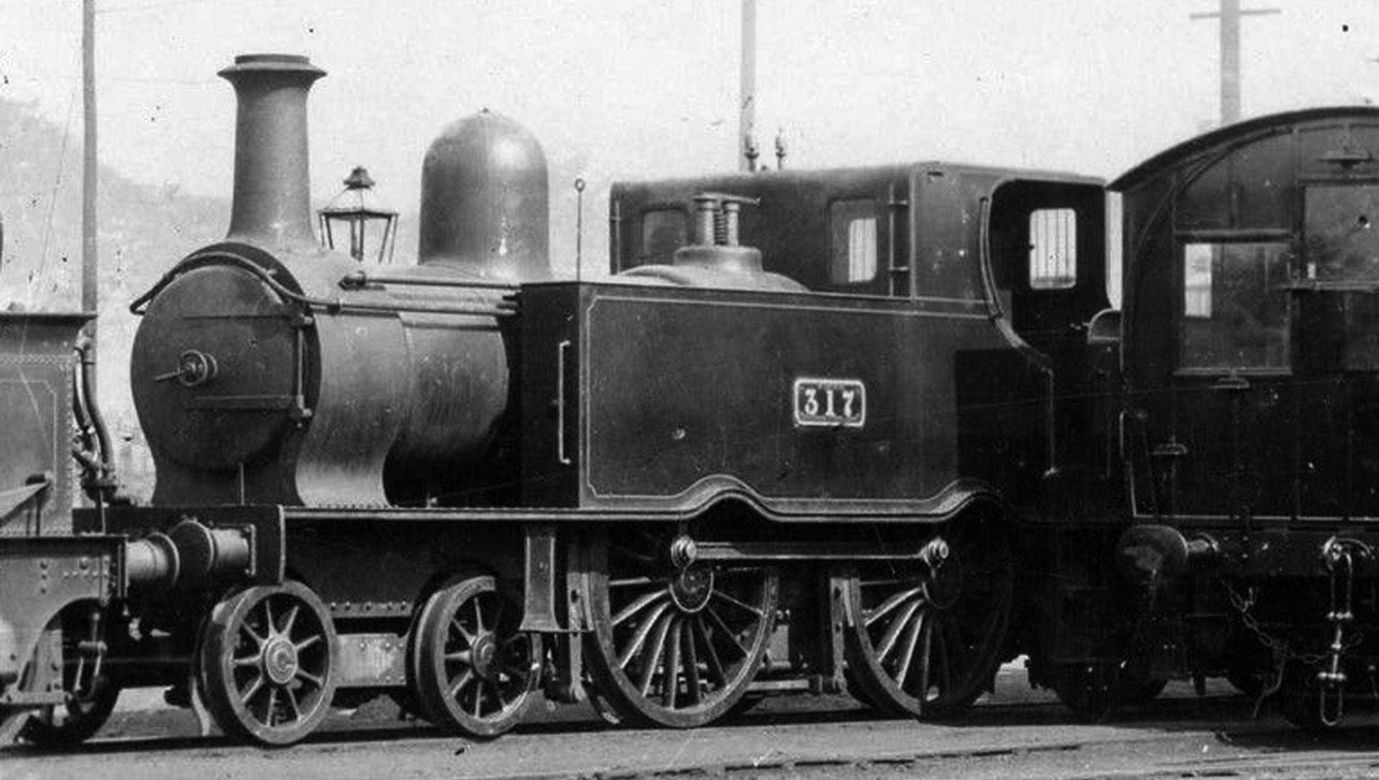 No. 317, GS&WR Class 37 4-4-2T built in 1901 by Inchicore Works, and steam railmotor no. 1